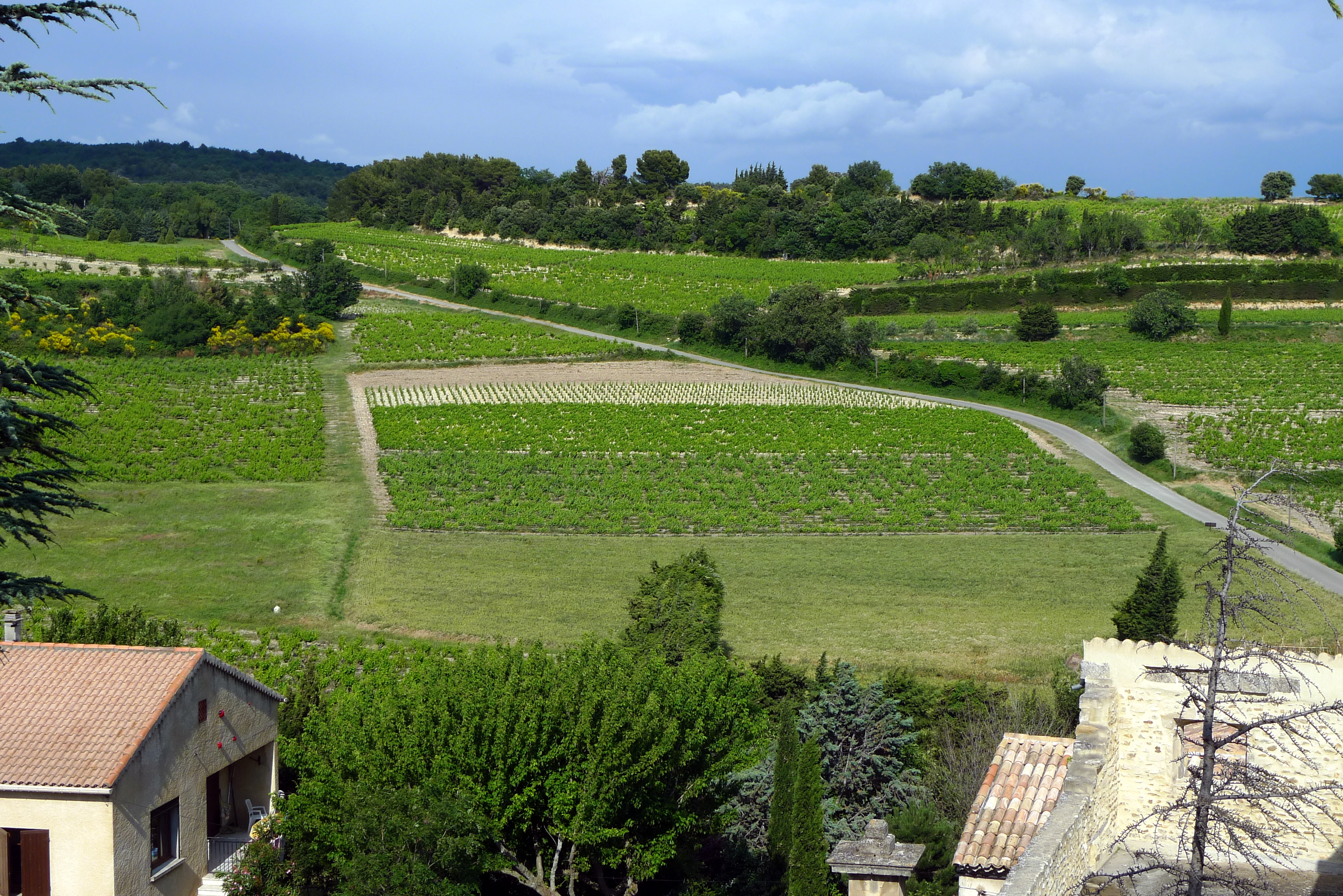 Vineyards in the French wine region of the Rhone Valley around the village of Visan.